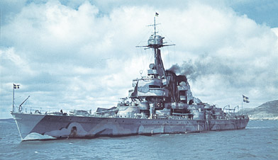 Picture of the Swedish battleship HMS Manligheten.